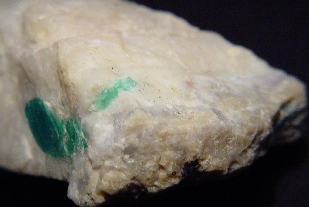 Elpasolite, Fluorite, Microcline (Var: Amazonite), Dimensions: 7 cm x 3 cm x 1 cm Locality: Morefield Mine (Morefield pegmatite), Winterham, Amelia Co., Virginia, USA Original description: XRD samples of blue-violet fluorecent alumino-fluoride material turn out to be elpasolite & the crust a mixture of fluorite & apatite fluorescing cream/white also has micro xls of ralstonite & thomsenolite, a patch of purple elpasolite and the amazonite marker. (7x3x1cm) From the Morefield yard, May/2002. Collector & owner MWylie Photo by Shaun Mackey